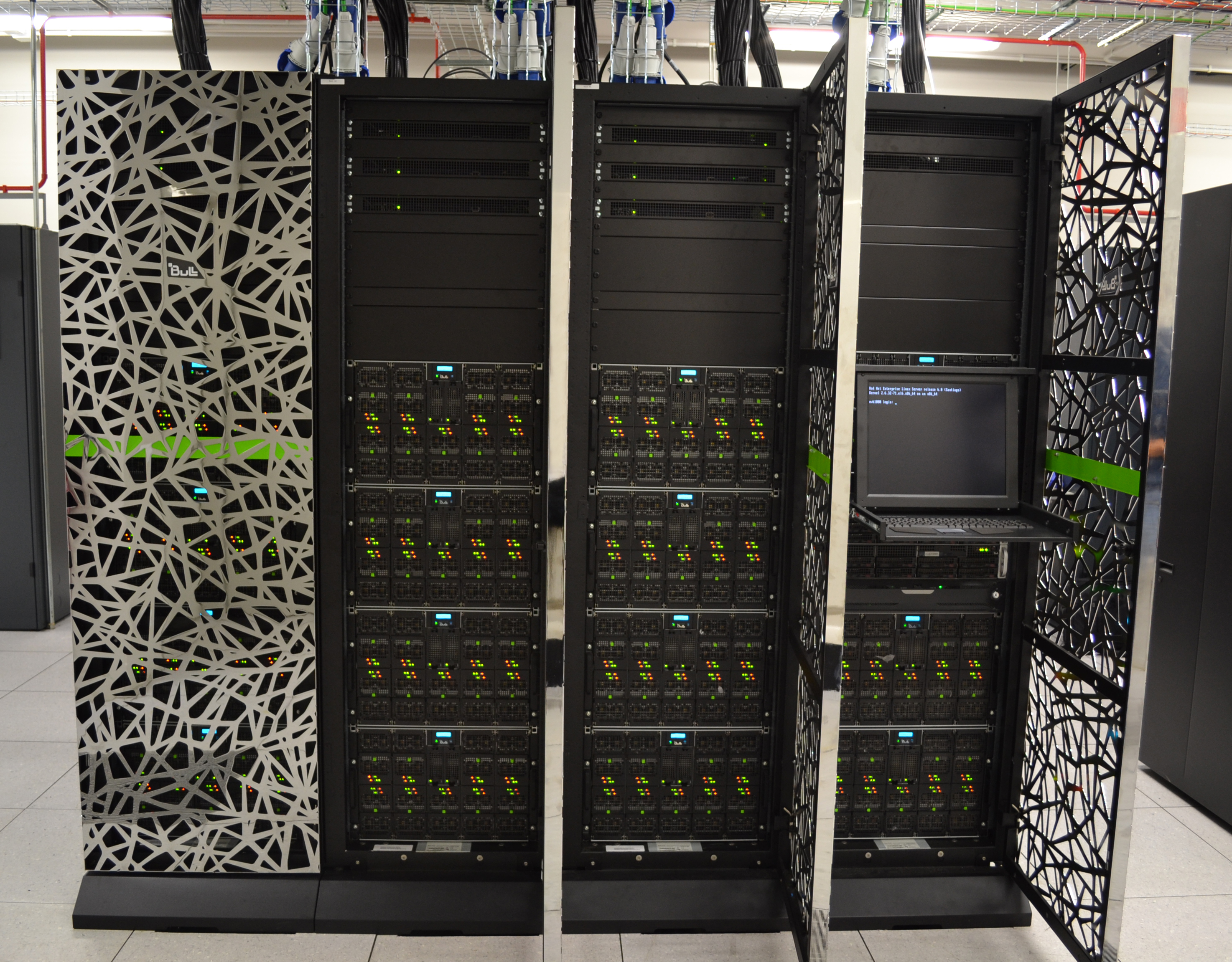 Photograph of the BullX nodes of Barcelona Supercomputing Center